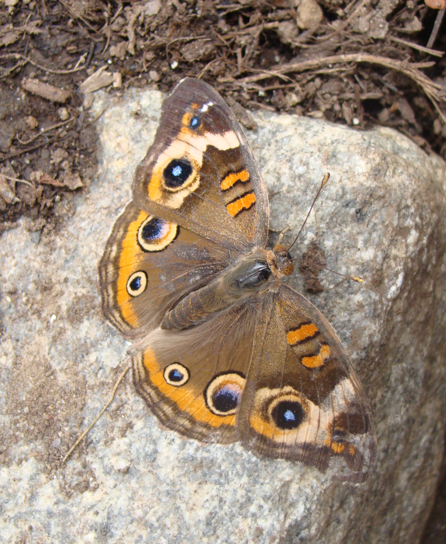 Picture of Junonia coenia taken at the Hershey Gardens Butterfly house.